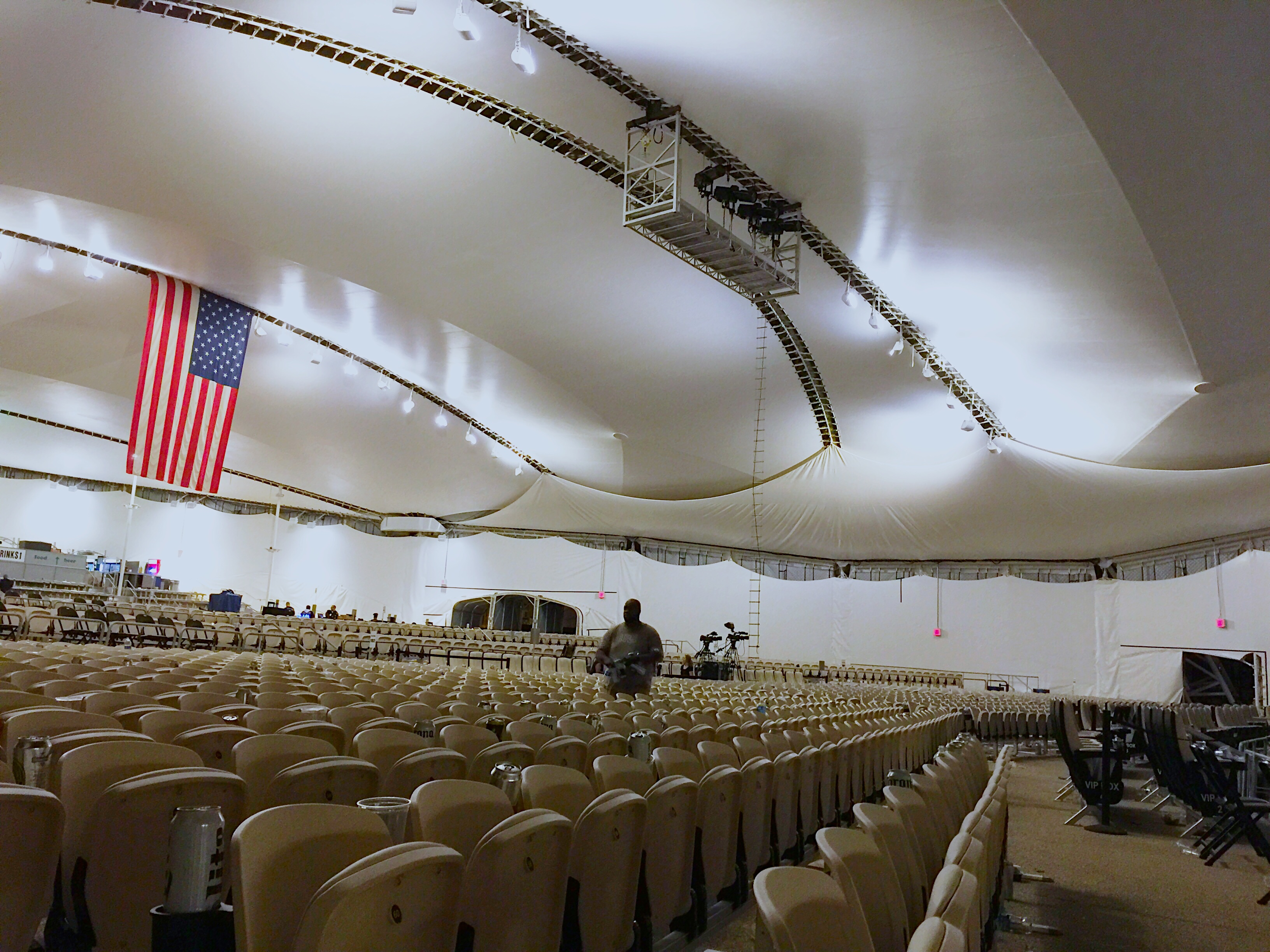 Seating area of The Ford Amphitheater at Coney Island in New York City during July 2016.